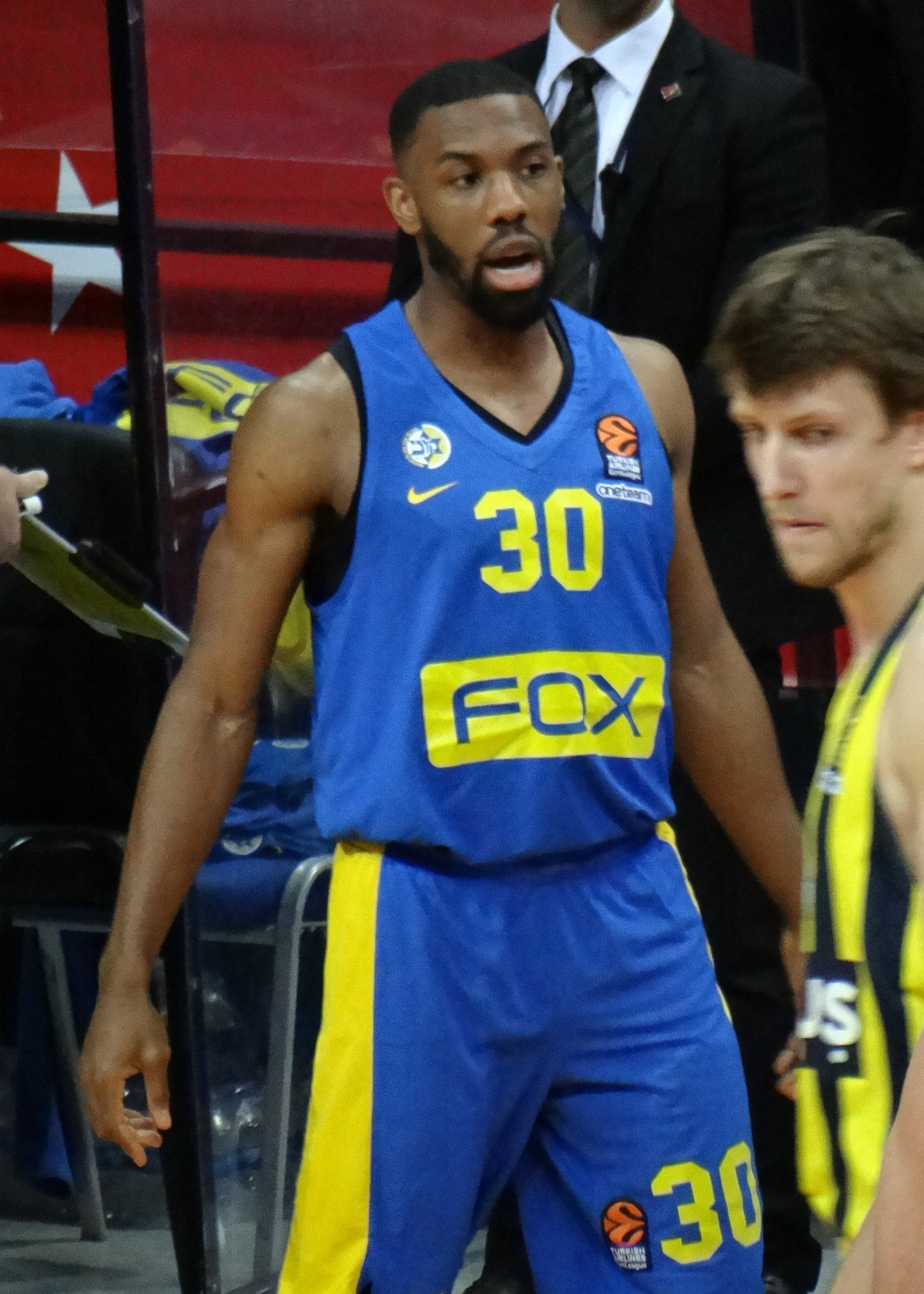 Norris Cole 30 Maccabi Tel Aviv B.C. EuroLeague 20180320